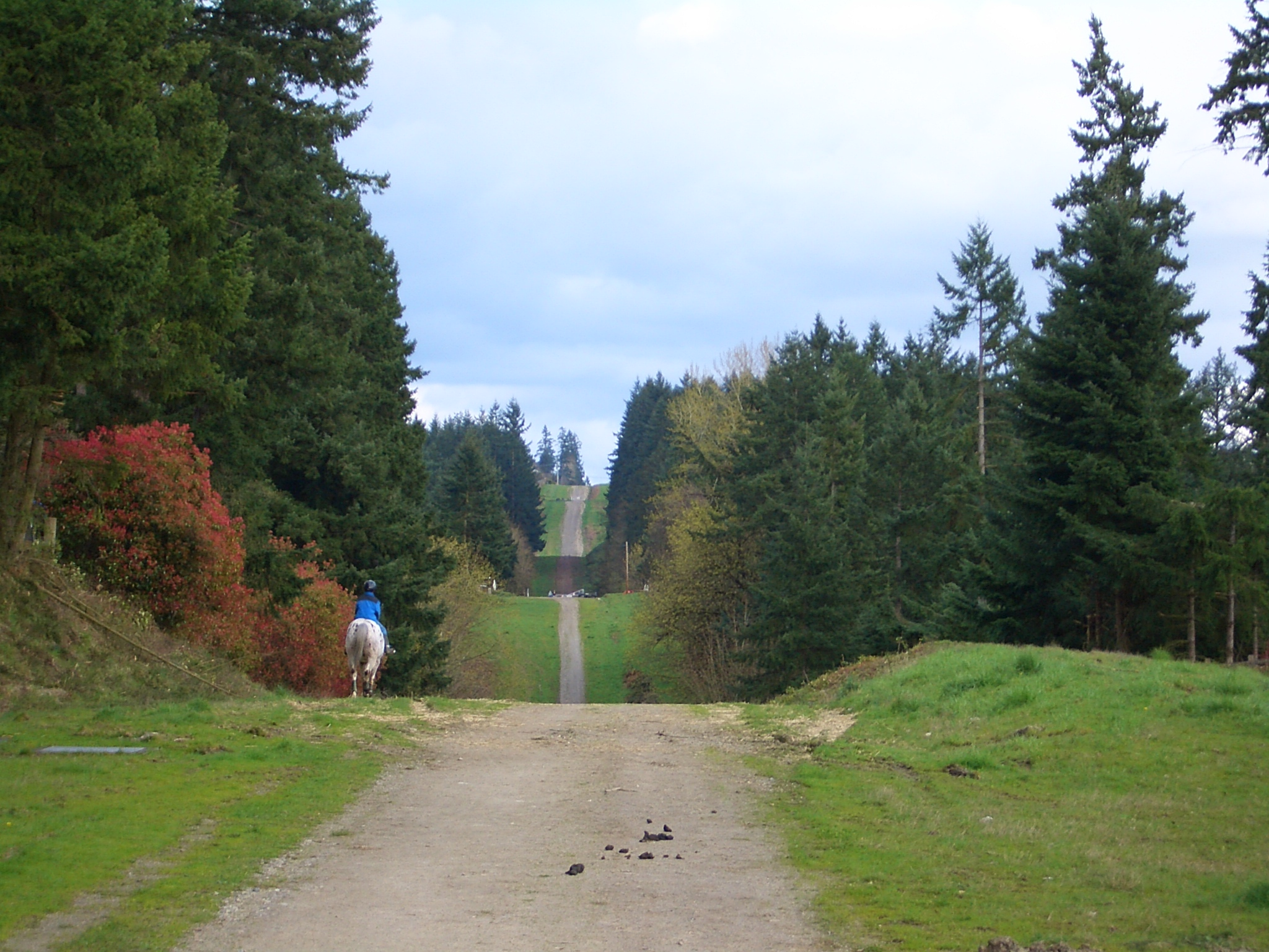 A young horse rider on the Tolt Pipeline Trail